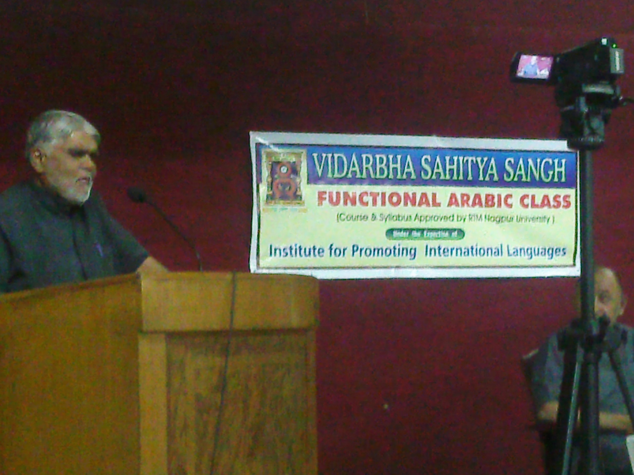 عزیز بلگامی ناگپور میں